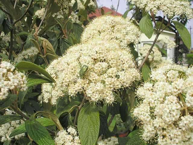 Viburnum rhytidophyllum with Cetonia aurata